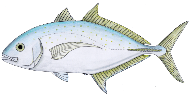 Hand drawn and coloured diagram of the yellowspotted trevally, Carangoides fulvoguttats. Based on Fishbase photos